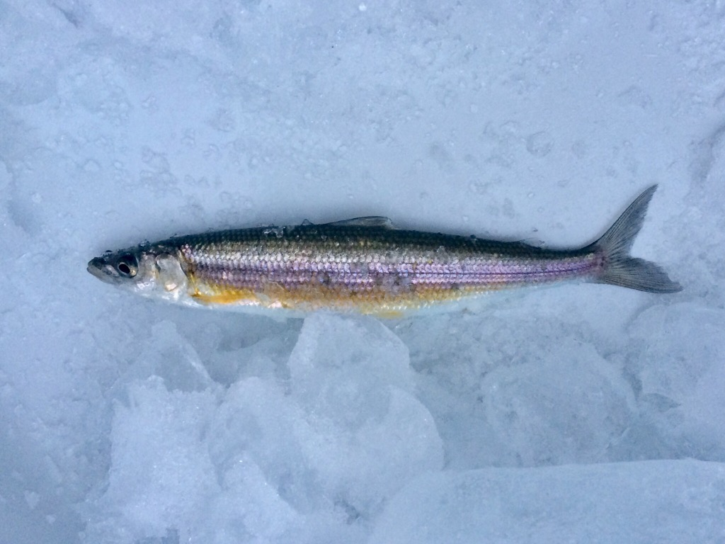 A single Bonneville Cisco (Prosopium gemmifer) in a cooler. This fish was dipnetted during the annual Cisco run on the Eastern shore of Bear Lake at Cisco Beach.